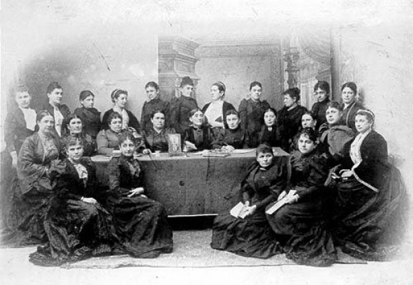 Administration of Belgrade's Women Society, 1894. (Belgrade City Museum)